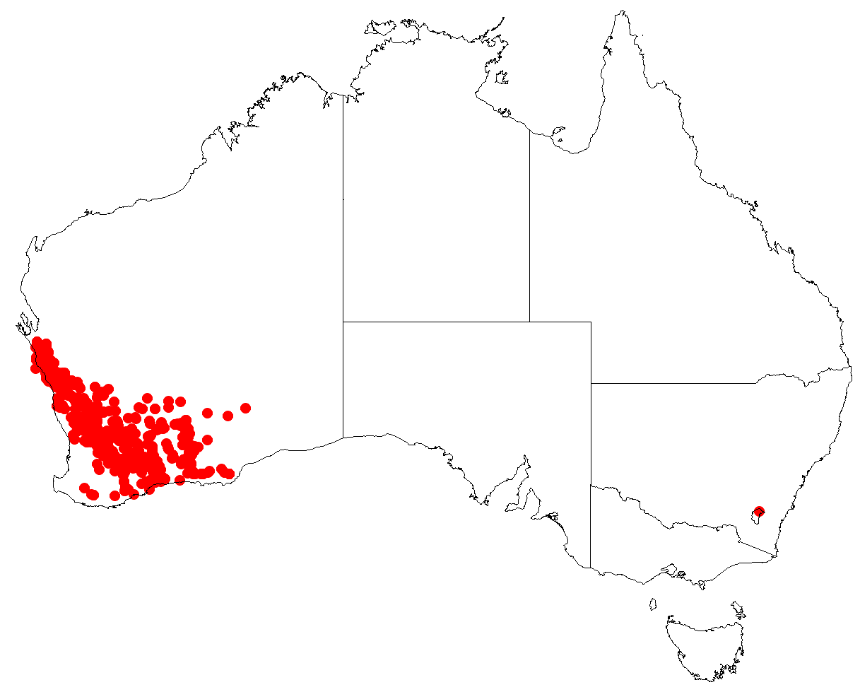 Allocasuarina campestris occurrence data from Australasian Virtual Herbarium download 4 July 2018